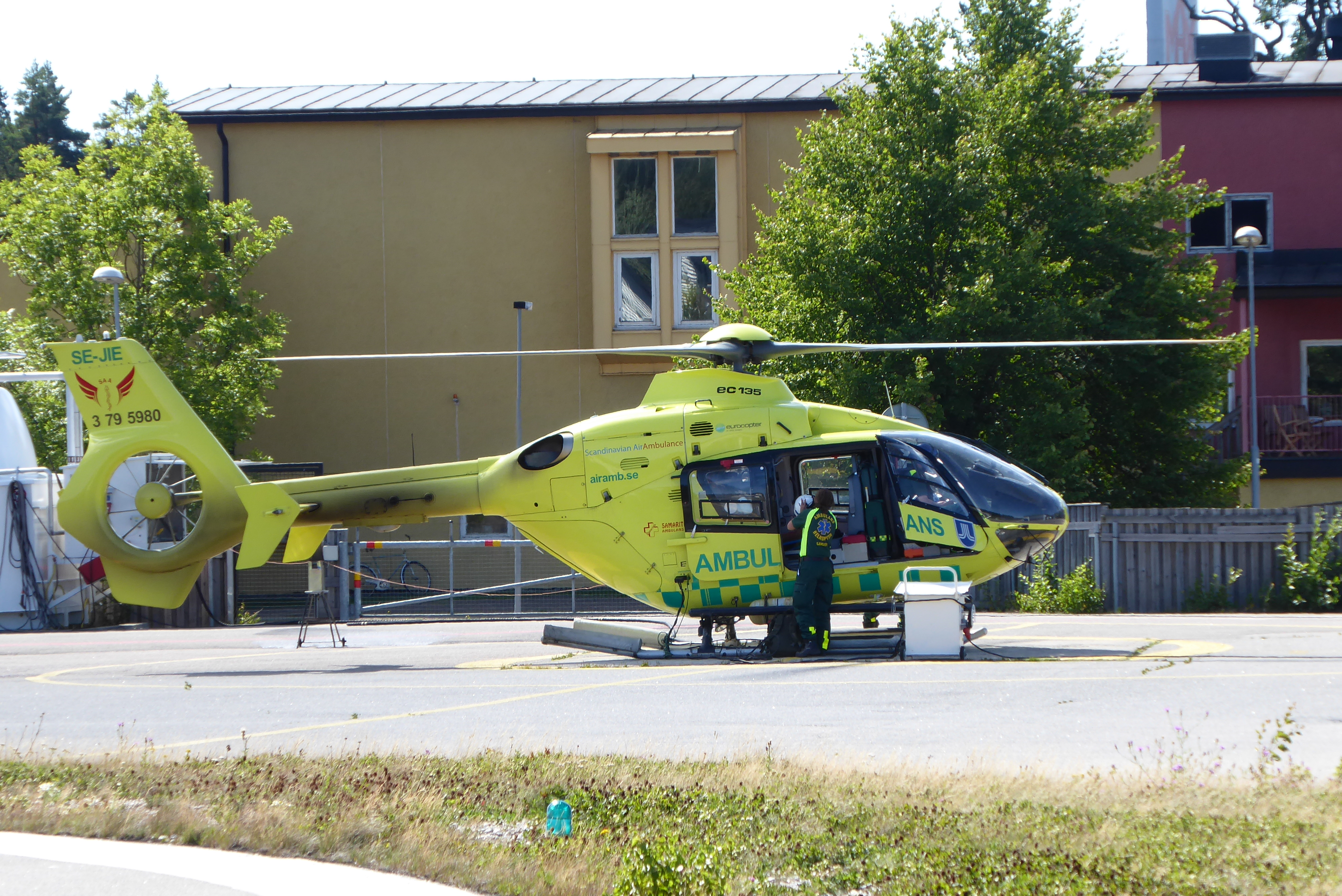 Ambulanshelikopter Eurocopter EC 135 på Mölnvik heliport. Scandinavian Medicopter/Stockholms läns landsting